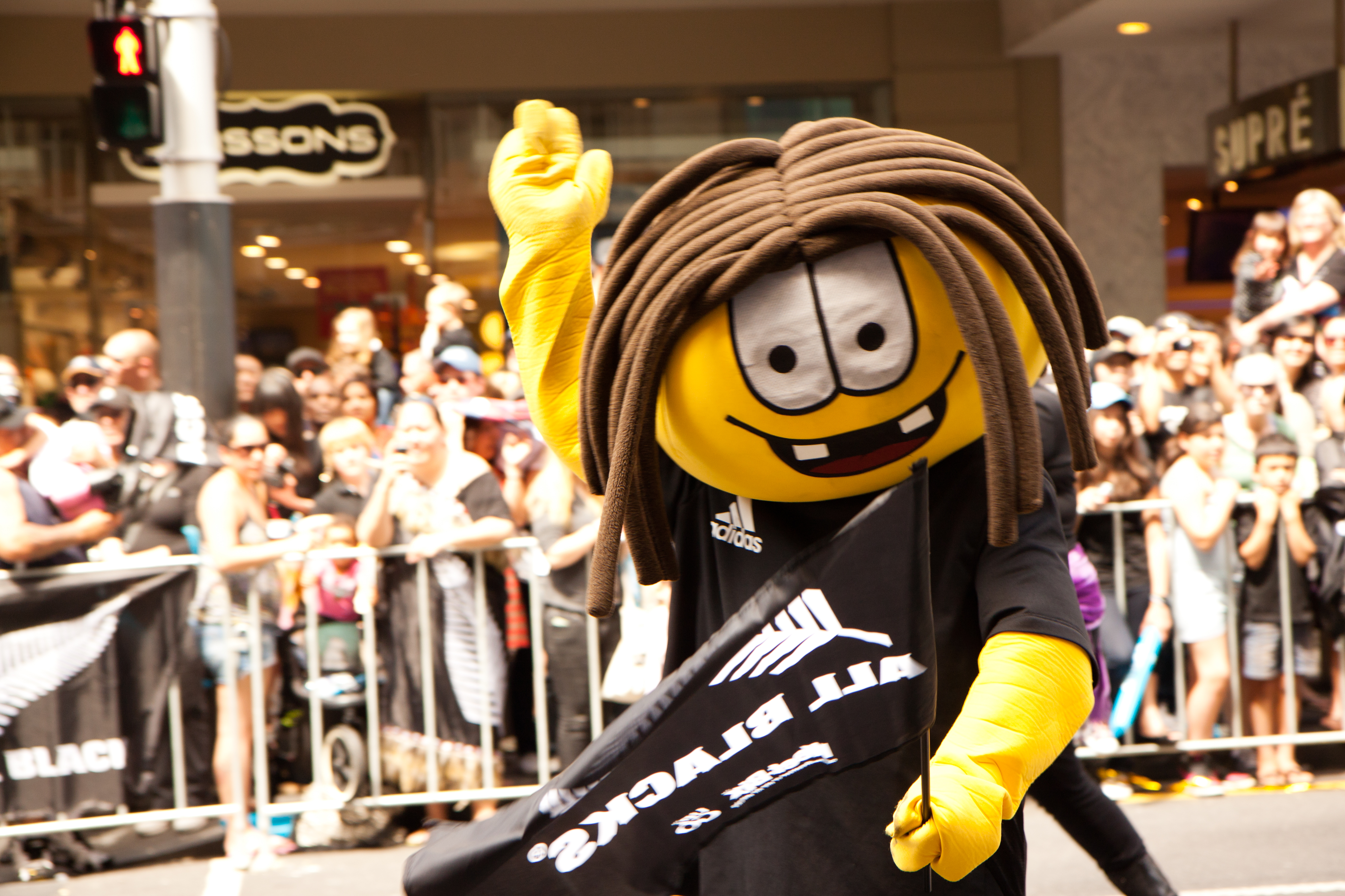 Parade in Auckland after winning by New Zealand national team 2011 Rugby World Cup.